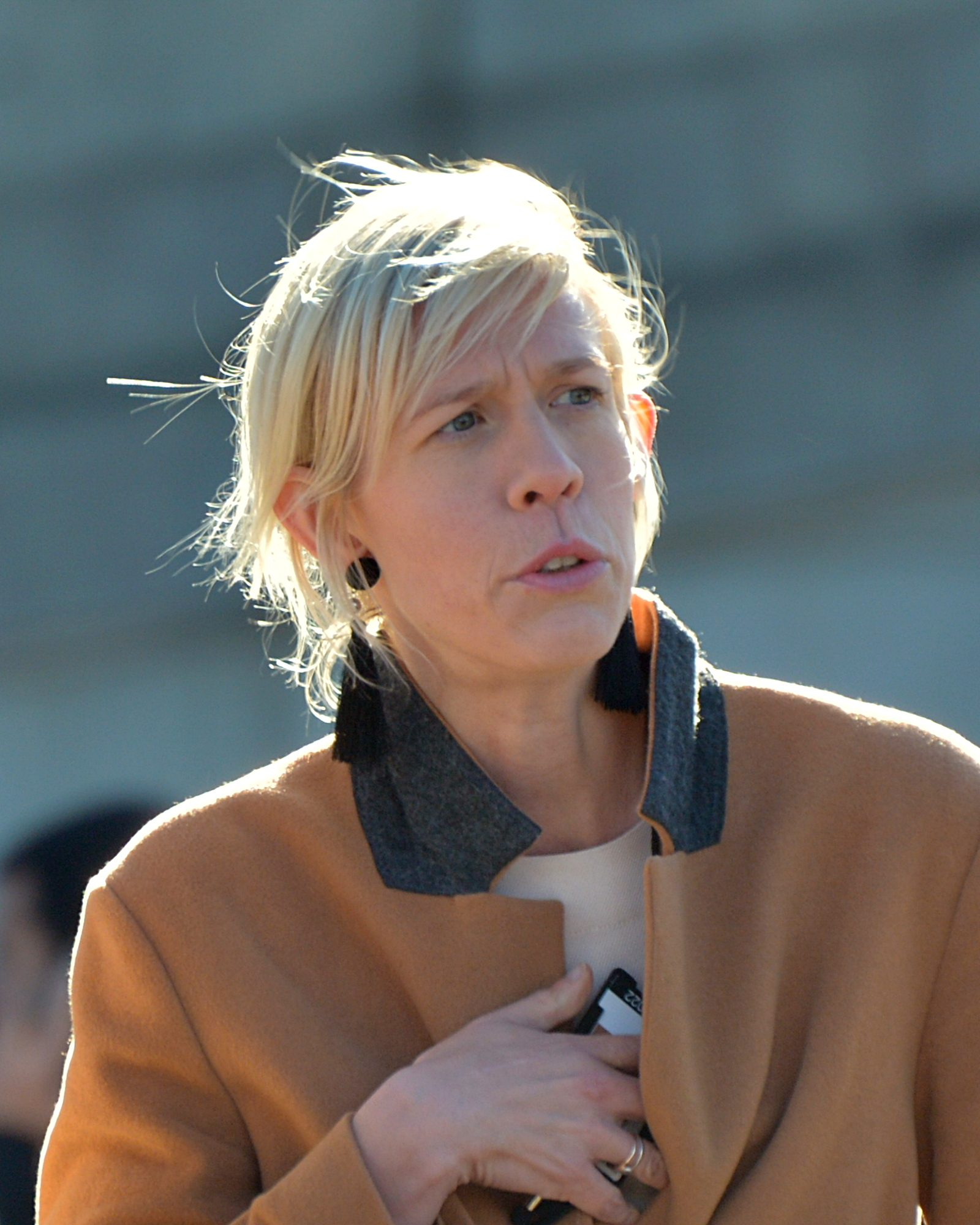 Maria Nilsson, member of the Riksdag for the Liberals.